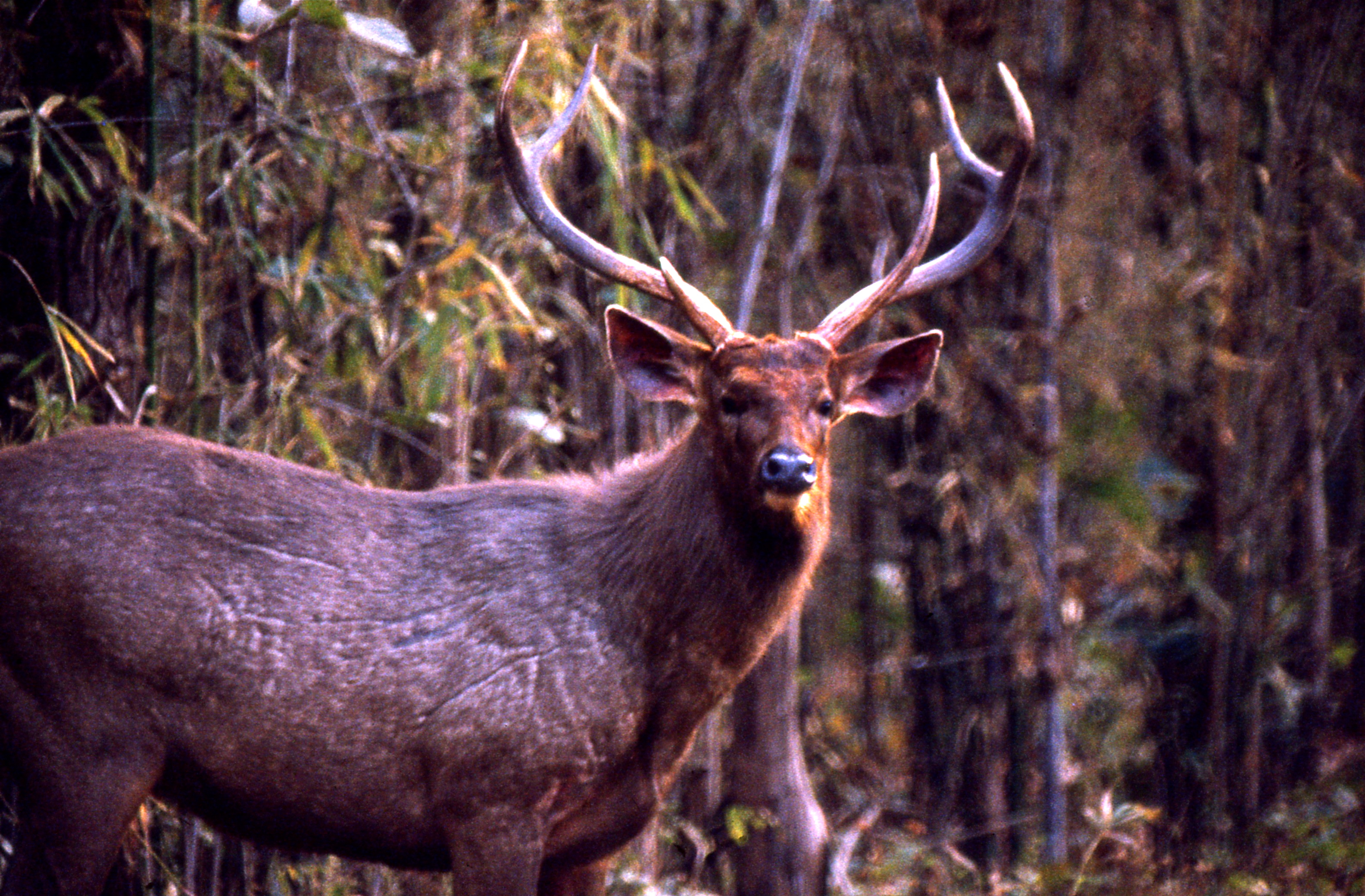 Kanha NP, Madhya Pradesh, India. Scanned Slide from March 1991.